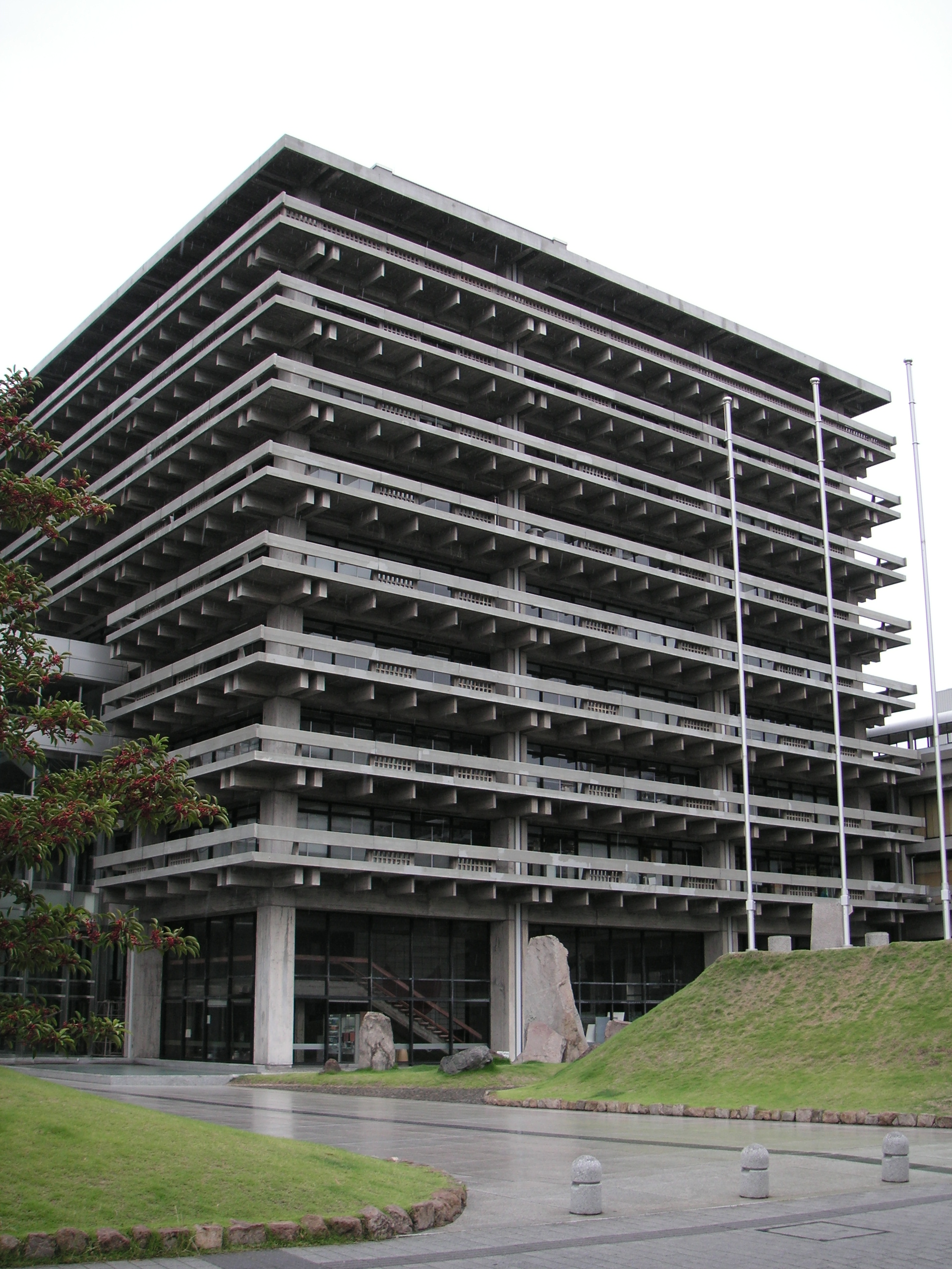 香川県庁東館, the east office of Kagawa Prefecture